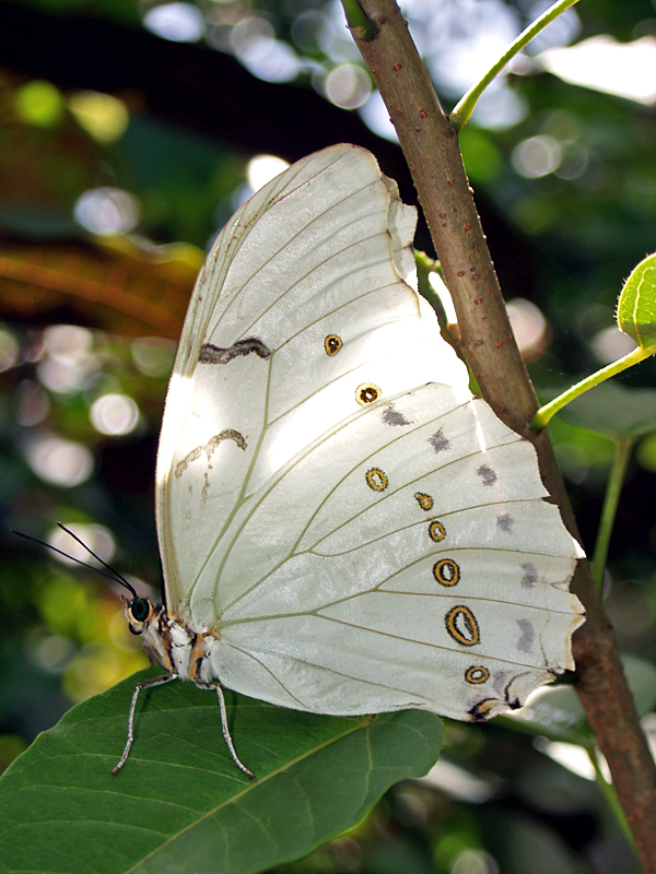 White Morpho butterfly